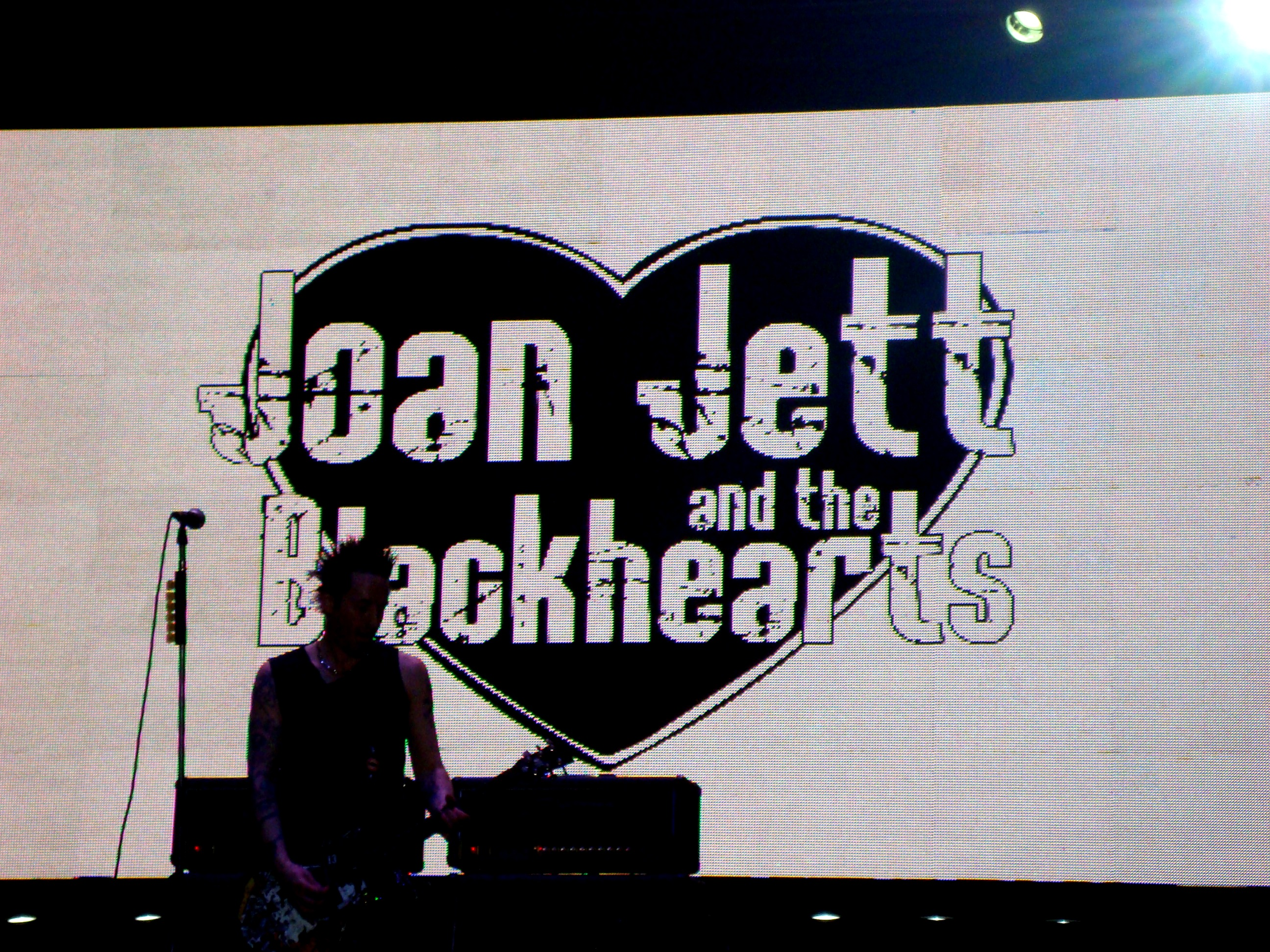 Joan Jett and The Blackhearts at Lollapalooza Brazil 2012.